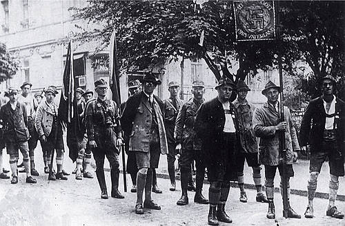 Six representatives of SA-Standarte from Rosenheim (the six men on the very right of the picture) during the NSDAP party rally in Weimar on the 4th or 5th of July 1926. Among them (5th from the right; in uniform) Josef Riggauer, head of the NSDAP group in Rosenheim and Reichstag deputy from 1933 to 1945.